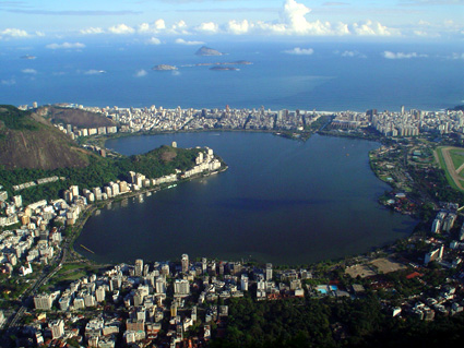 Rodrigo de Freitas Lagoon.